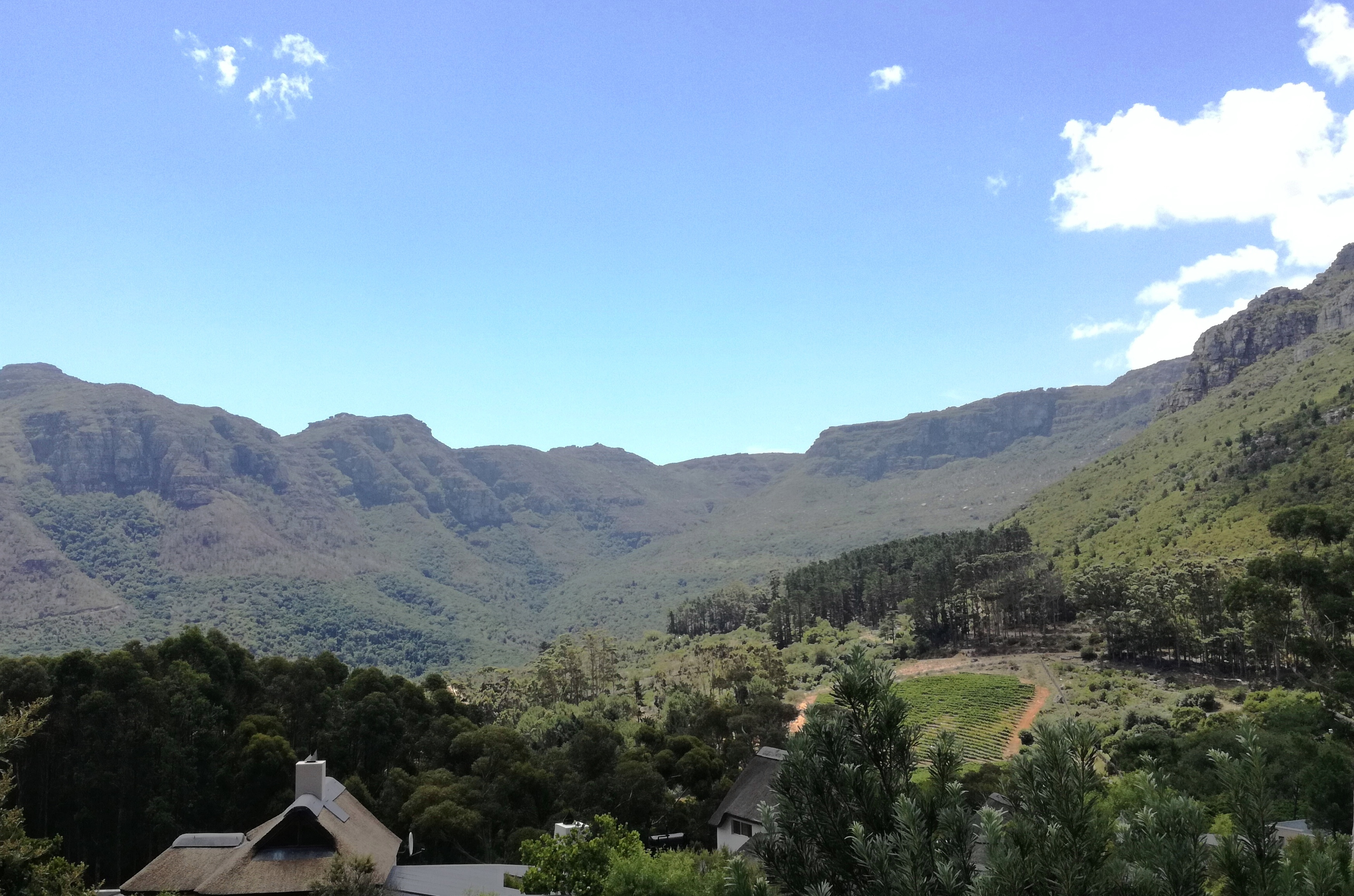 Oranjekloof or Orange Kloof. Indigenous forested valley of Cape Town viewed from the south.